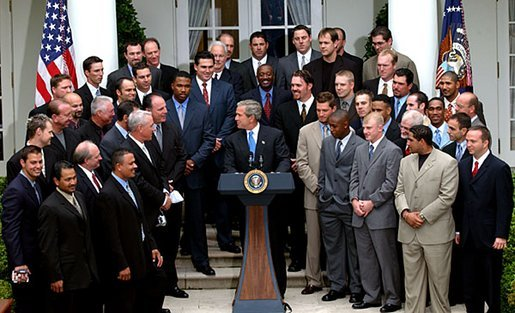 The Anaheim Angels of Major League Baseball (United States) are honored by President George W. Bush following the side's winning the 2002 World Series.